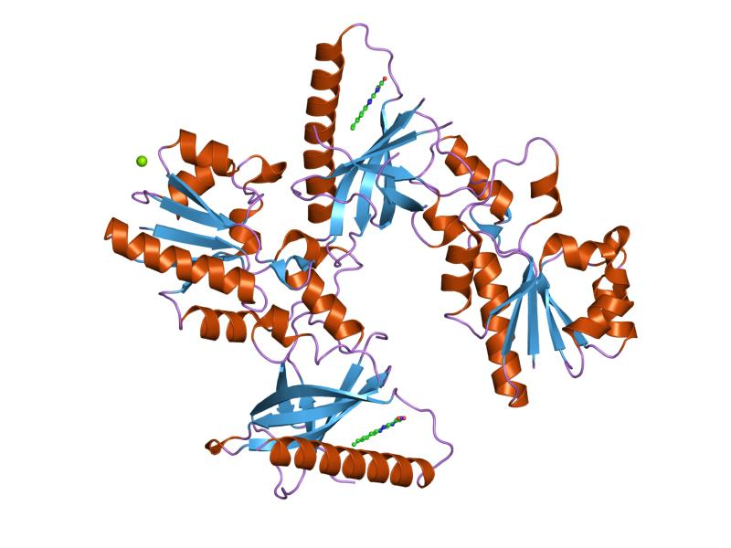 Cartoon representation of the molecular structure of protein registered with 1s4m code.